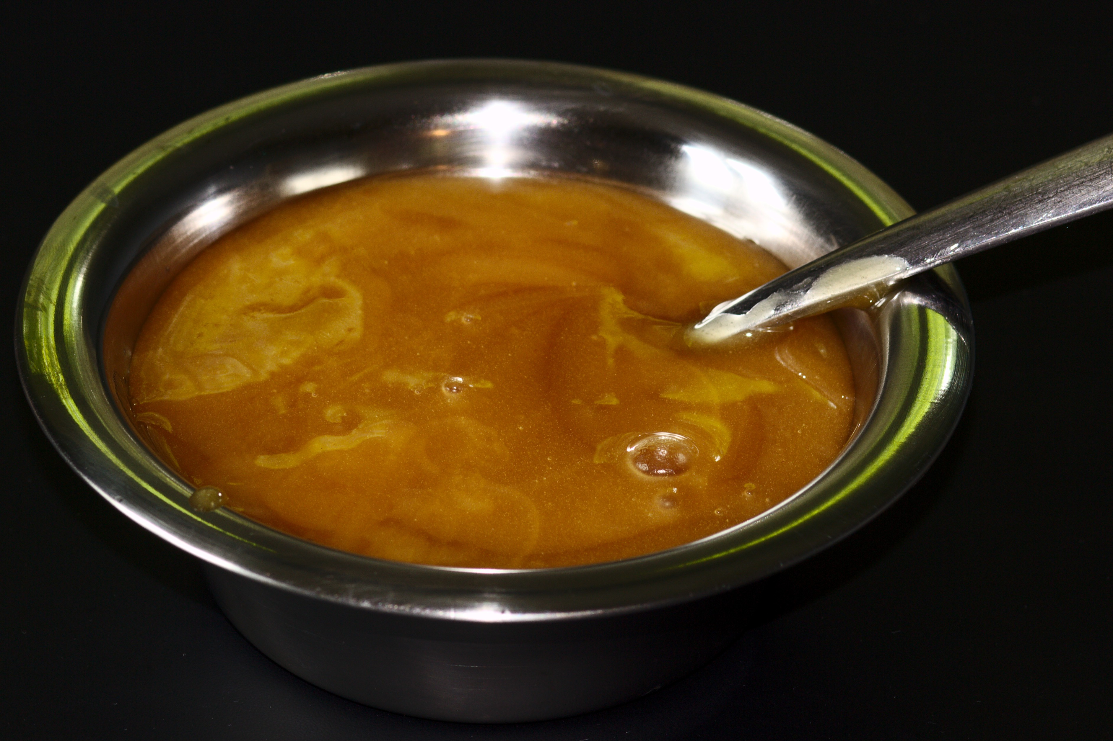 A bowl of Manuka Honey from Trader's Joe's, advertised as "UMF 10+".